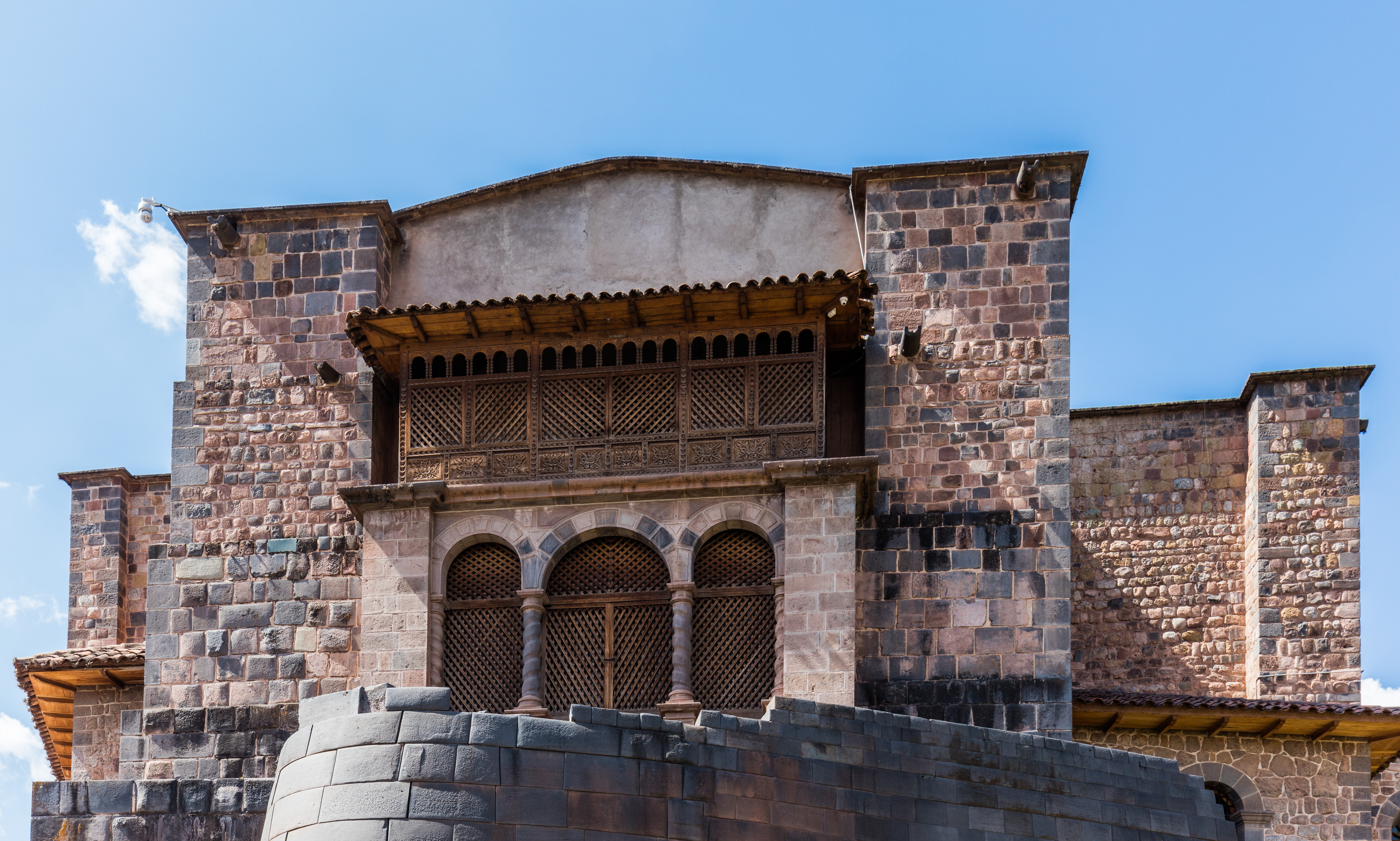 Coricancha, Cusco, Peru